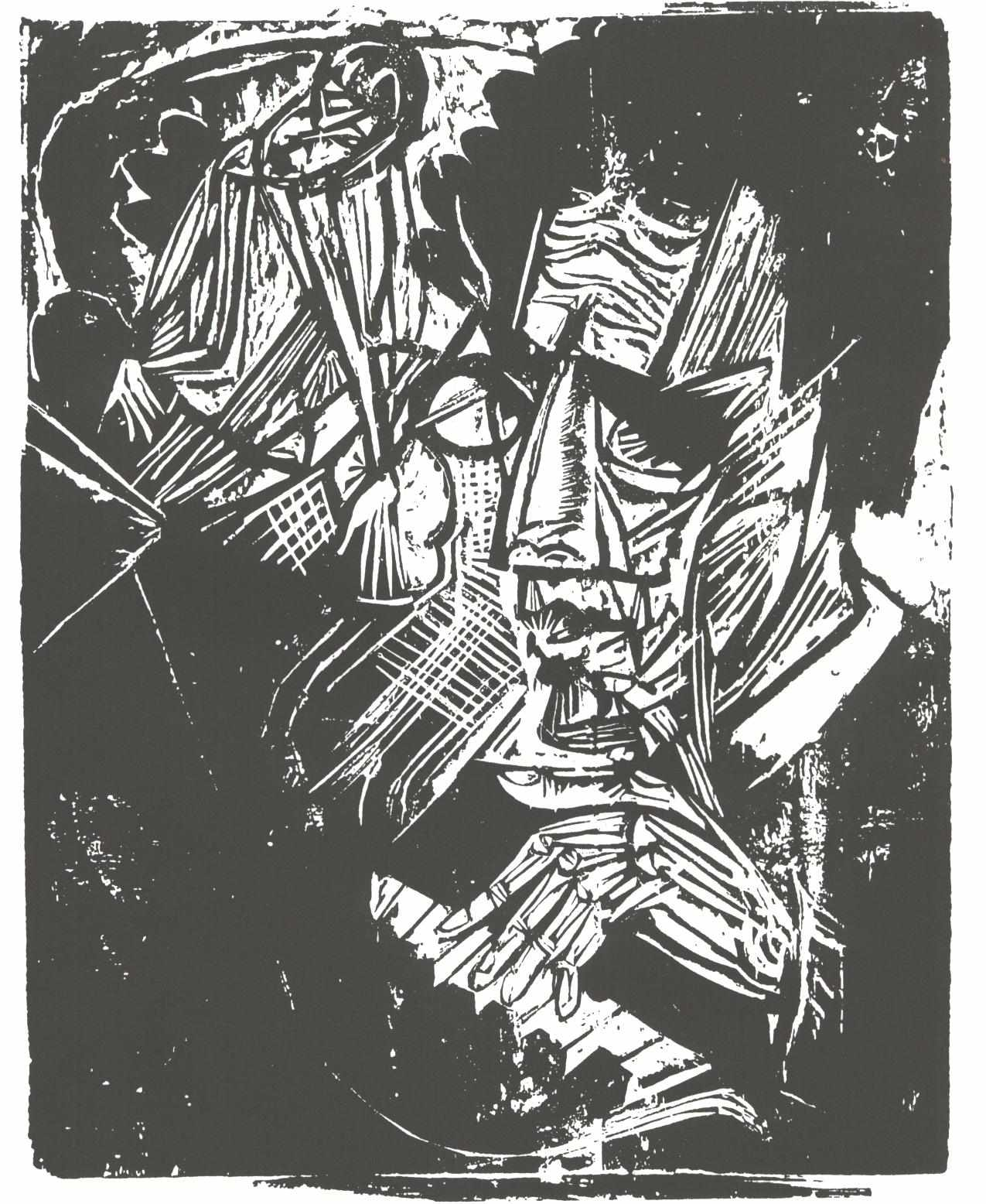 Portrait of the conductor and composer Otto Klemperer